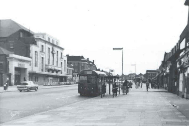 The Broadwalk, Pinner Road, North Harrow Taken in 1962 (probably on a Sunday morning in view of the lack of people and traffic), looking towards The Embassy cinema, shortly to be demolished and replaced by a Safeway supermarket and 10-pin bowling alley. Also notable is the hourly Green Line coach from Wrotham in Kent en route for Amersham in Buckinghamshire.